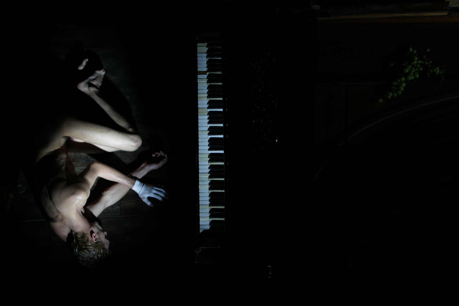 Still from Las Meninas (film) Author - Ihor Podolchak Source - Ihor Podolchak Licensing Removed from the following pages: Las Meninas --OrphanBot (talk) 07:14, 20 January 2009 (UTC)